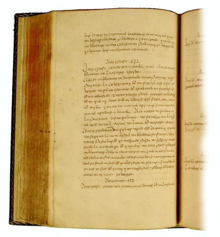 Page from a 350-year-old book: Annals of the Four Masters, entry for year AD432